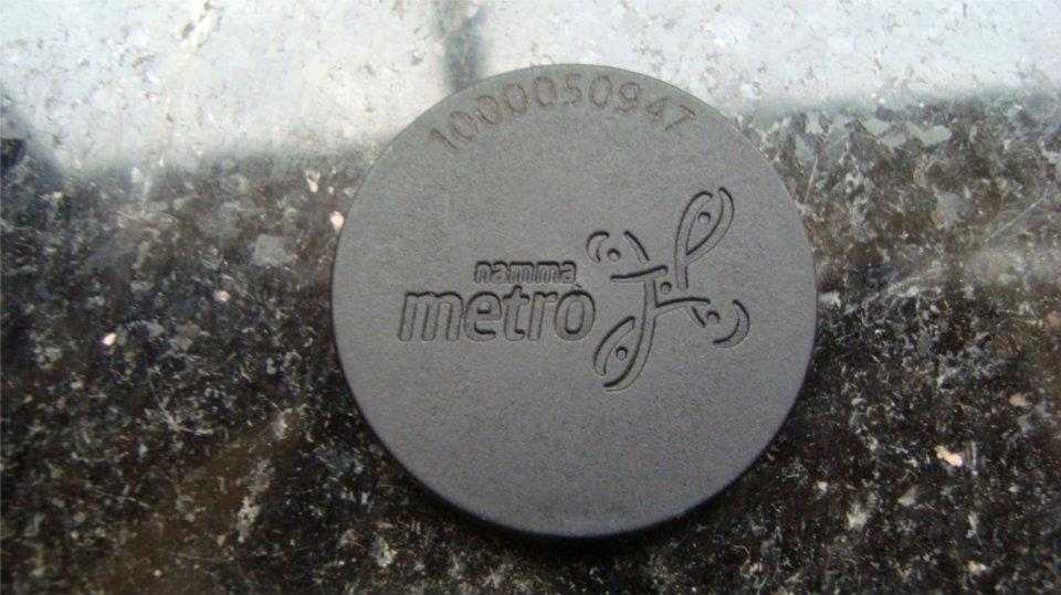 Front of the tokens given for entry to the Bangalore Metro in Bangalore, India